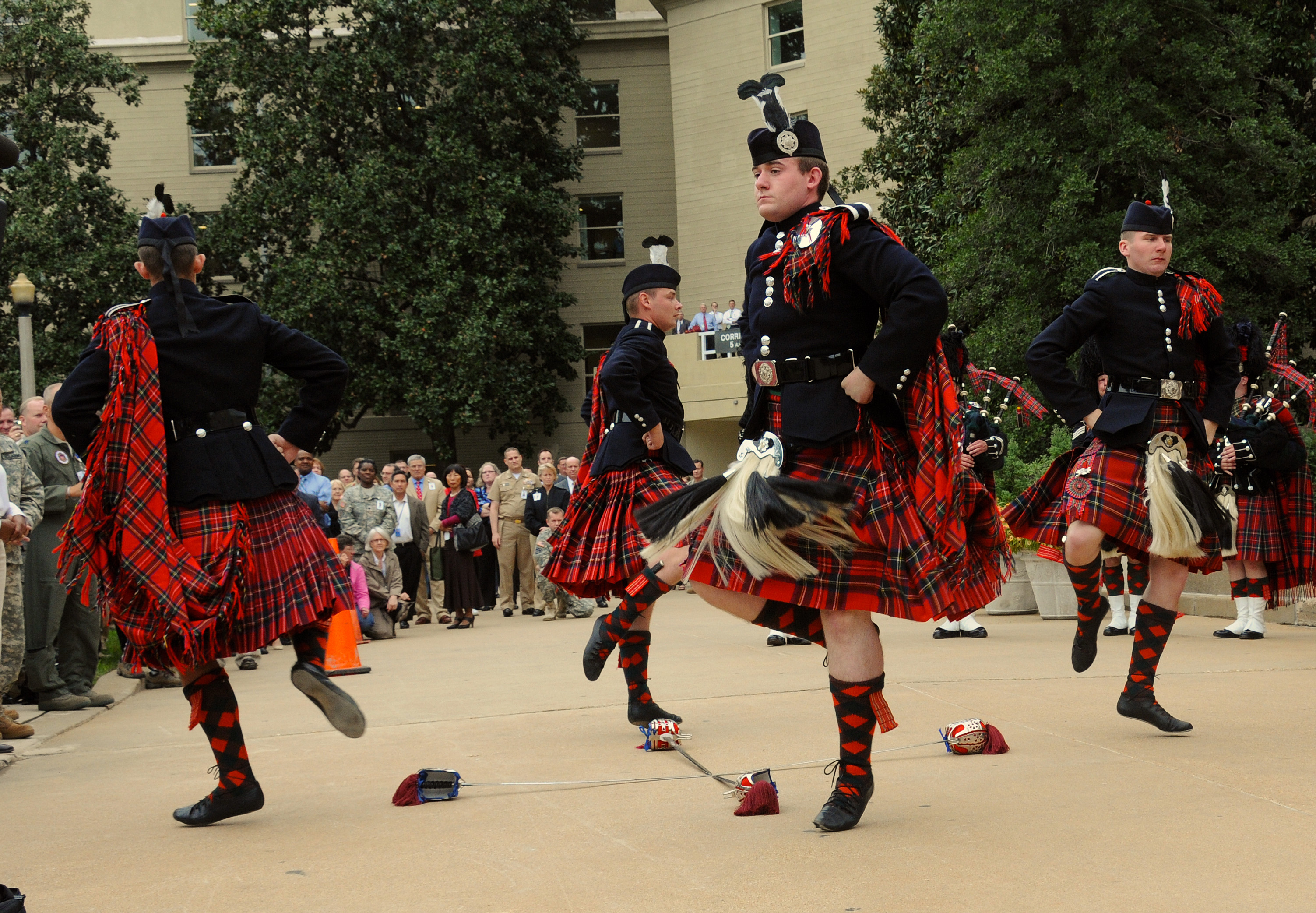 The British Army's 21-member Pipes and Drums corps of the 1st Battalion Scots Guards put on a world class performance of piping, drumming and highland sword dancing in the Pentagon courtyard Sept. 25.